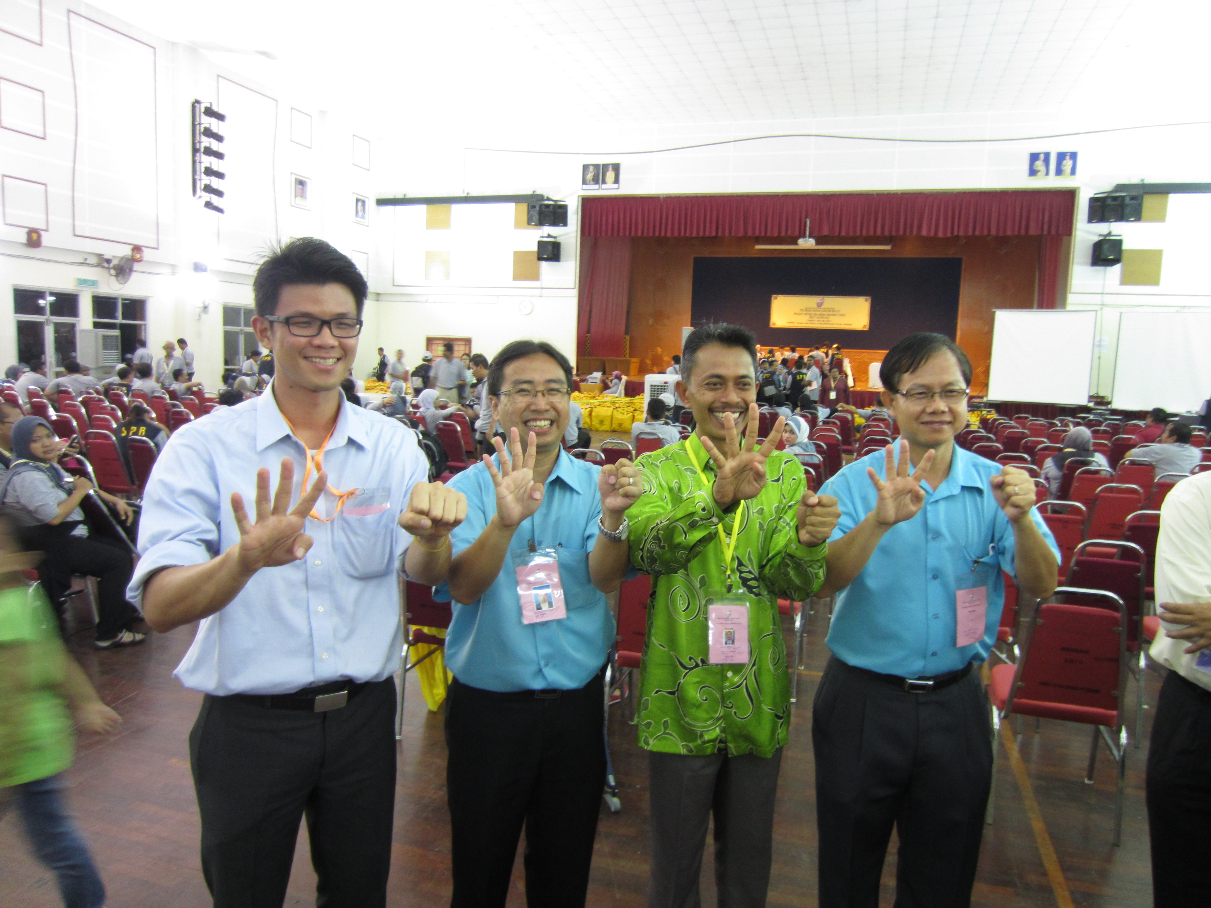 Photo taken after 4-0 win over all three state seats and Gopeng Parliament seat. (left to right) Tan Kar Hing (Simpang Pulai State), Chang Lih Kang (Teja State), Ustaz Radzi Zainon (Sg Rapat State) and Dr Lee Boon Chye (Gopeng Parliament).